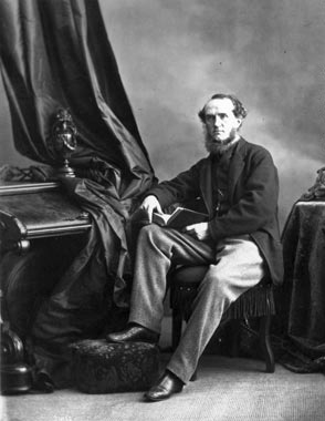 A self-portrait of William Notman, c. 1866–1867 Image online from [1]